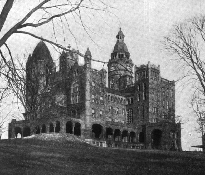 Picture of Webb Academy Circa 1899